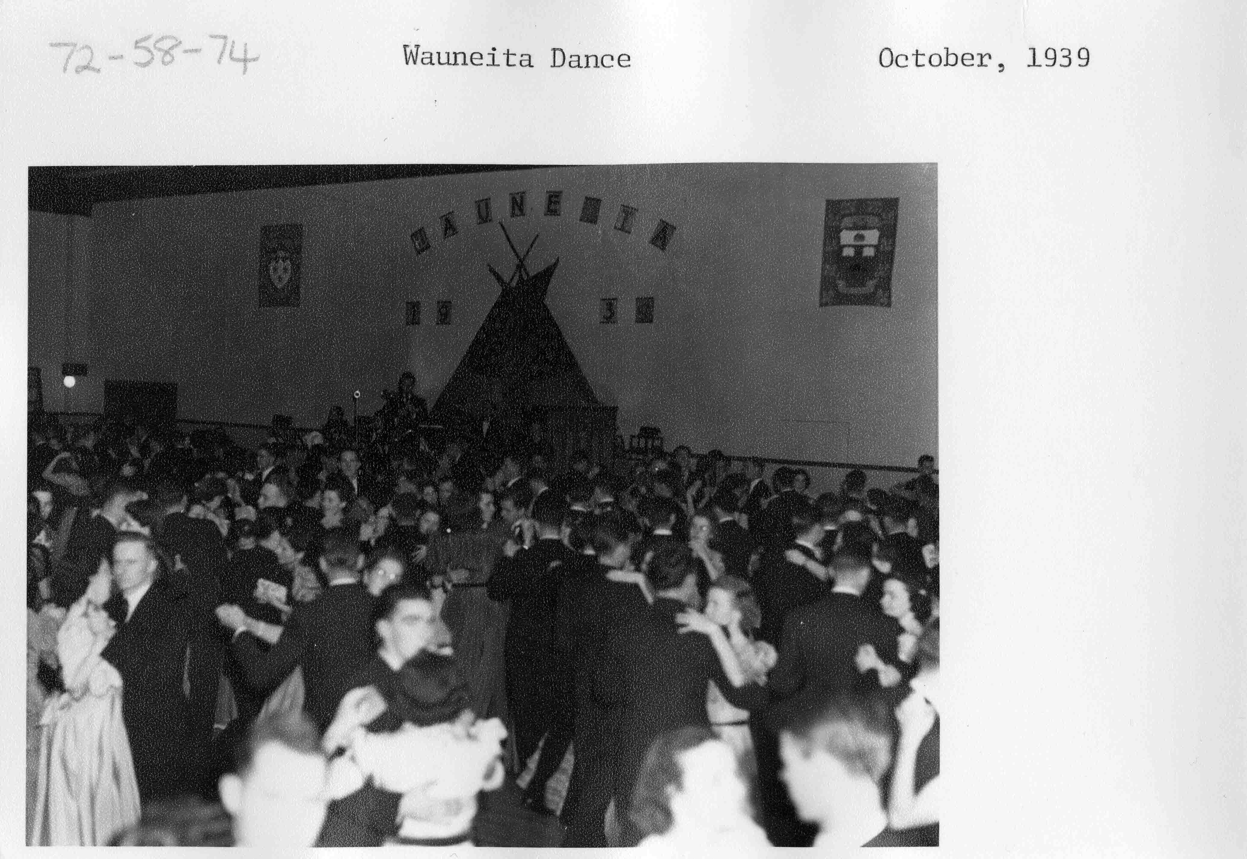 A dance hall full of young students, with a tipi on one wall below the word Wuaneita